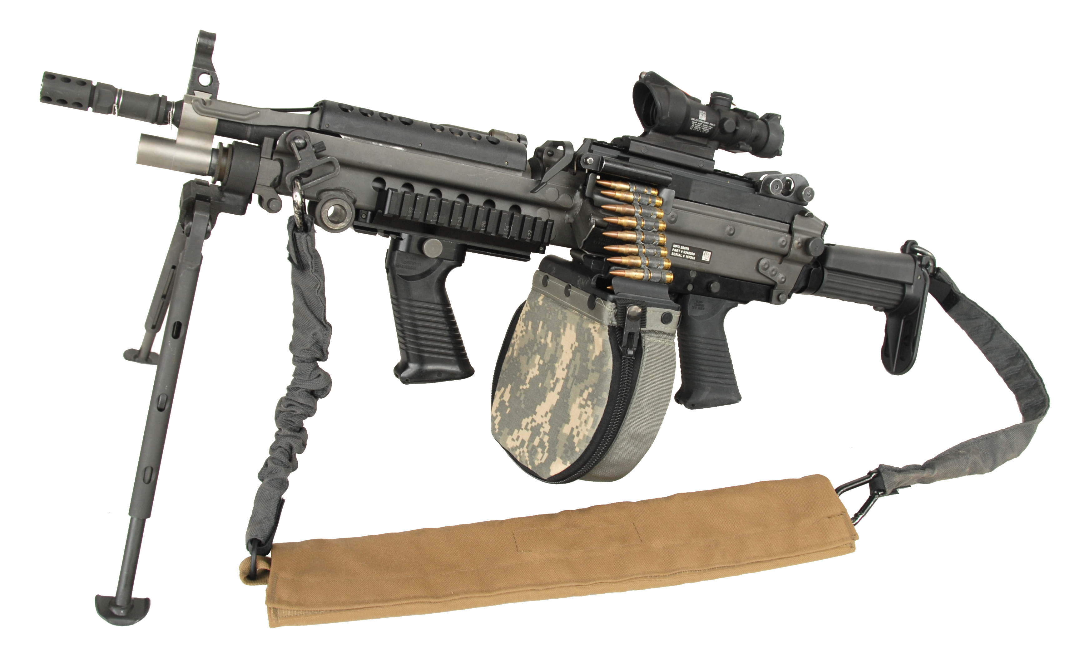 U.S. Army M249 with all improvements as of July 2010